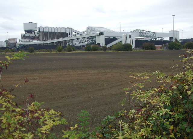 Kellingley Colliery Looking northeast from the level crossing on Common Lane. Known to miners as 'The Big K', Kellingley Colliery started with the sinking of shafts in 1958 with the first coal being produced in 1965. RJB Mining took over operations at Kellingley in January 1995 and since then it has continued to work the 650 metre deep Silkstone and 700 metre deep Beeston seams. It is estimated that a further 18 million tonnes of coal could also be extracted from the nearby Warren House seam in the future.